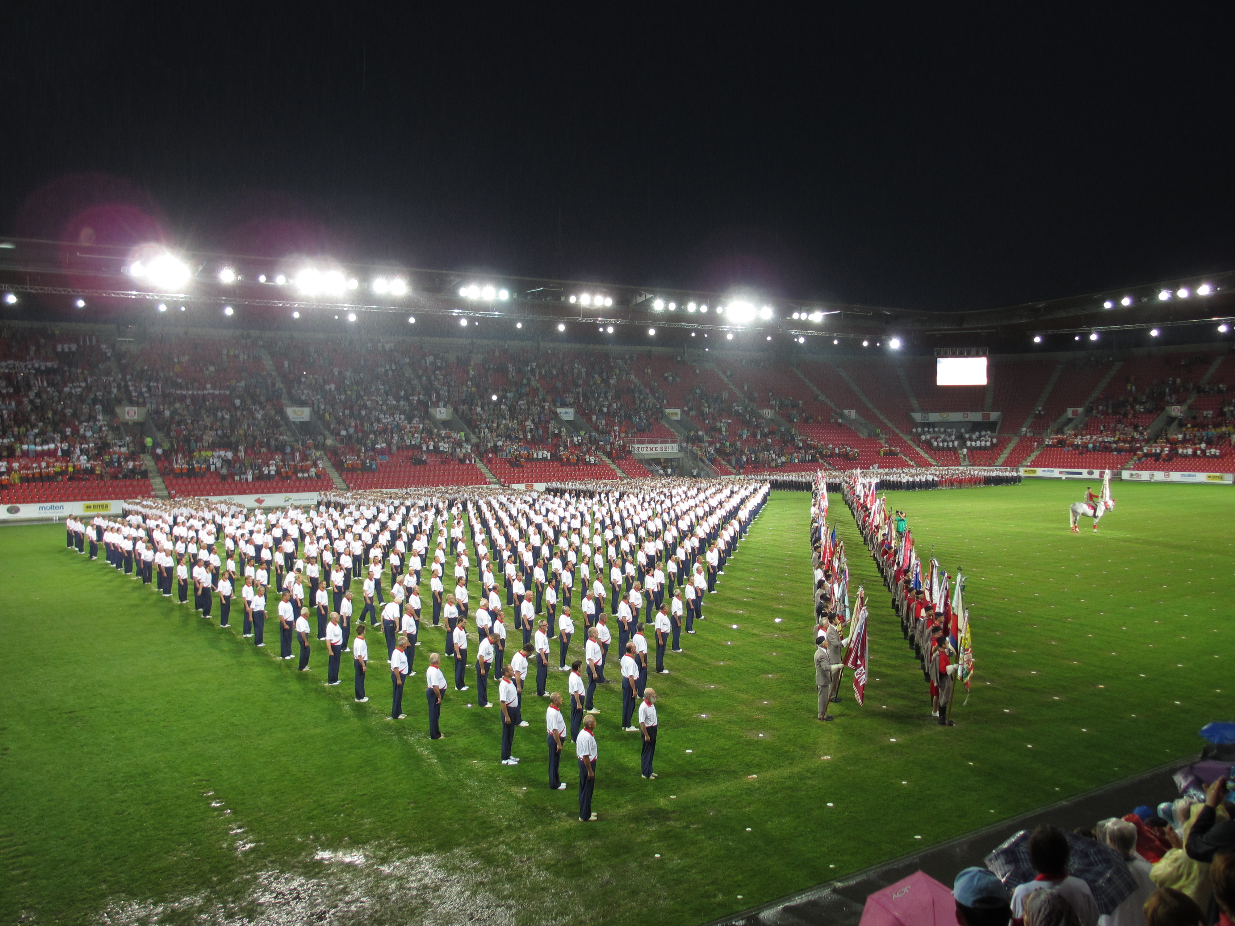 Gathering of Czech sport club Sokol called "XV. sokolský slet", Stadion Eden (called in 2012 Synot Tip Arena), Prague, Czech Republic